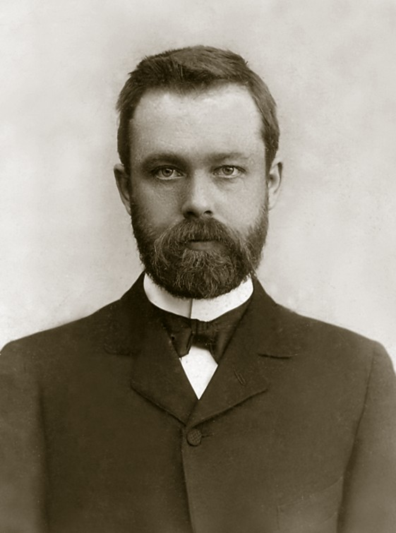 Nikolay Gorodenskiy, First Rector of Kostroma State University